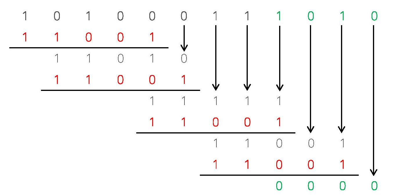 cyclic redundancy check2